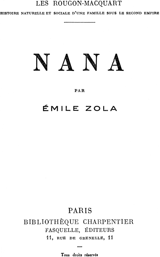 Book cover of Nana by Émile Zola (1840-1902)